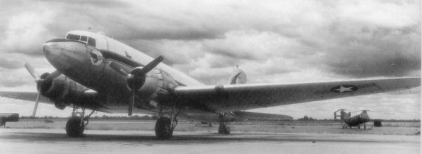 USAF DC-3 in use by South Vietnamese Air Force - flown by US Pilots - Tan Son Nhut Air Base.